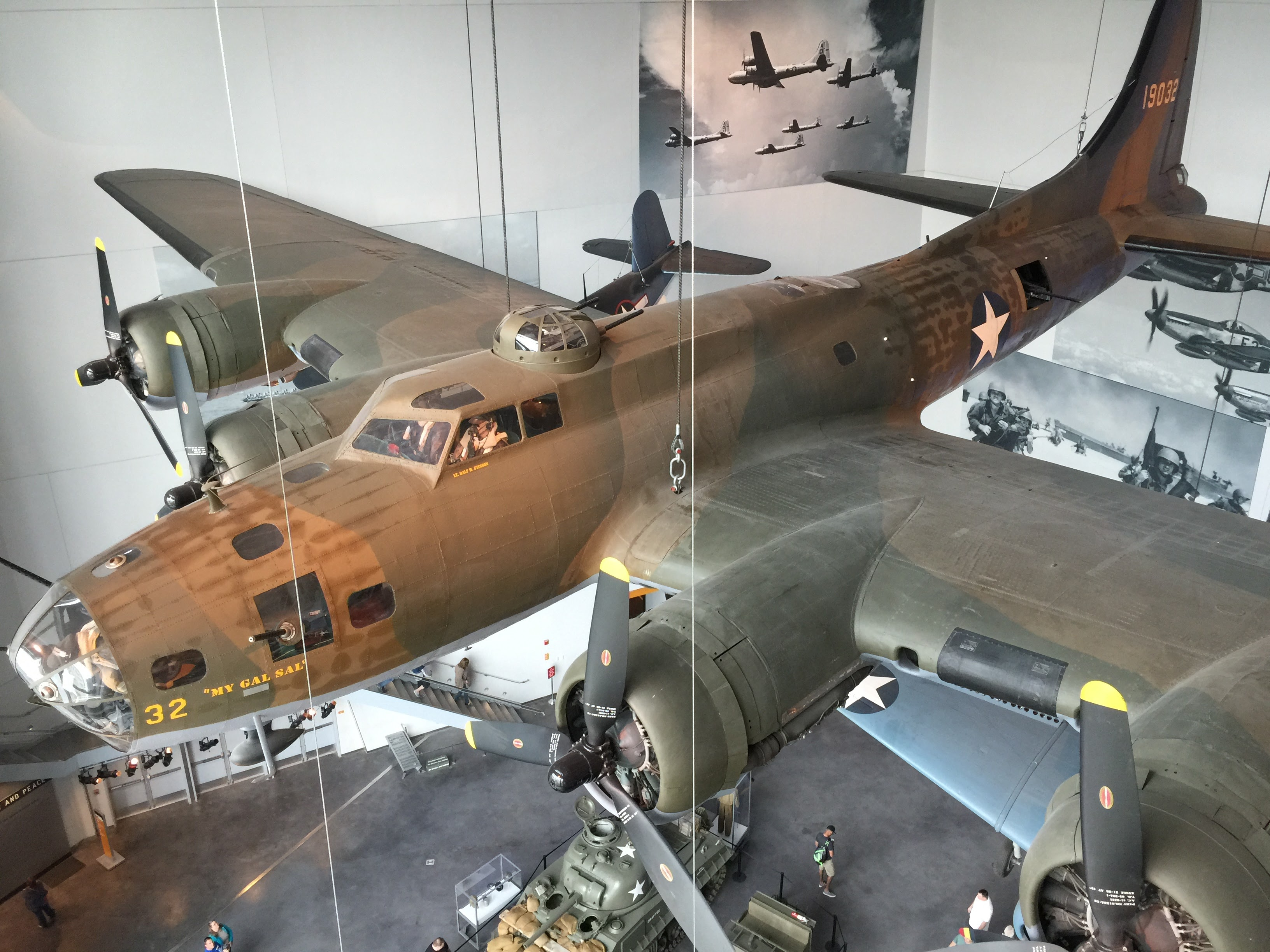 My Gal Sal at National WWII Museum in New Orleans, LA